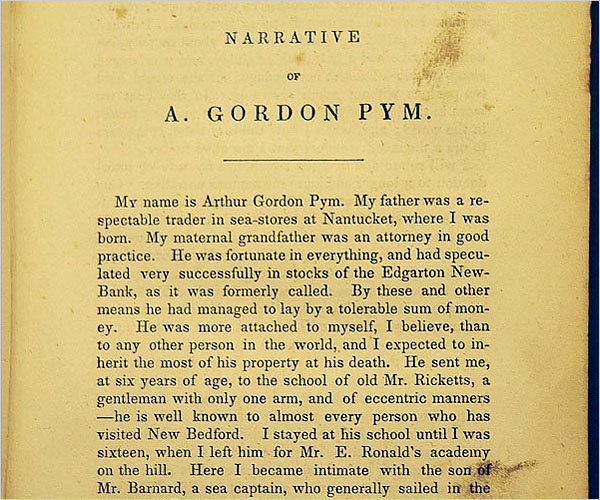 Scan of the first page of The Narrative of Arthur Gordon Pym of Nantucket by Edgar Allan Poe, first published in 1838. This copy is part of the Berg Collection of the New York Public Library.